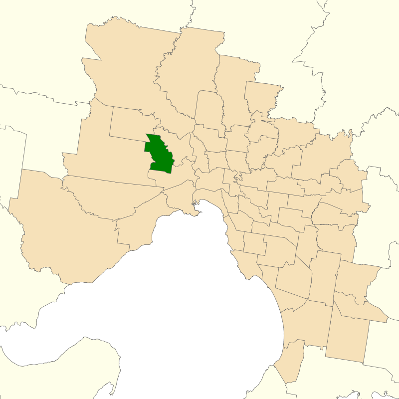 Location of the Victorian electoral district of St Albans (dark green) in the Greater Melbourne area.